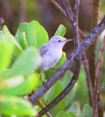 An old world warbler found only on Christmas Island, Republic of Kiribati. Alternative name Bokikokiko